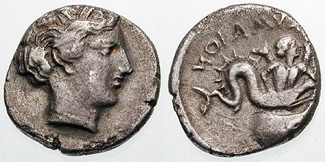 Campania, Cumae. Circa 420-380 BC. AR Nomos (6.92 gm). Diademed female head right KYMAION, large mussel shell, skylla right above. Rutter 138 (O107/R127); SNG ANS -; SNG Lockett 66 (same dies); Jameson 39 (same dies). Toned VF, surfaces a little grainy. Rare. From the Robert Schonwalter Collection.